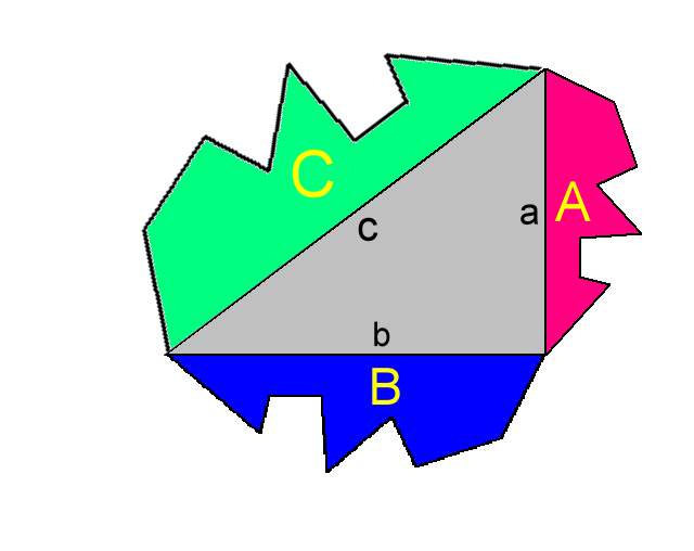 generalization of pythagorean theorm